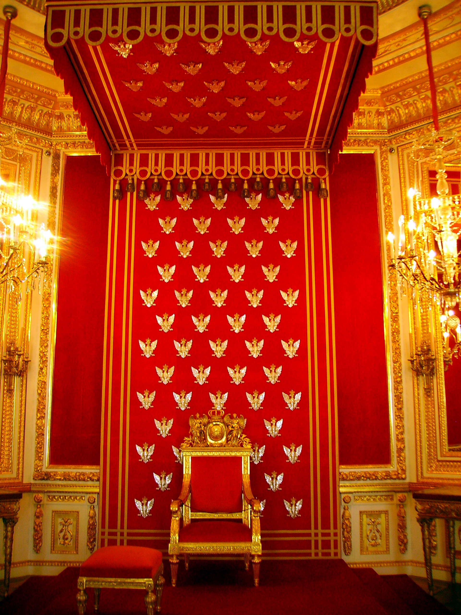 The throne of the former Kingdom of Poland